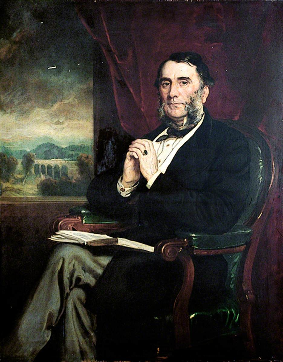 Portrait of Sir Alfred Watkin, 2nd Baronet (1846–1914), British railway engineer and politician.